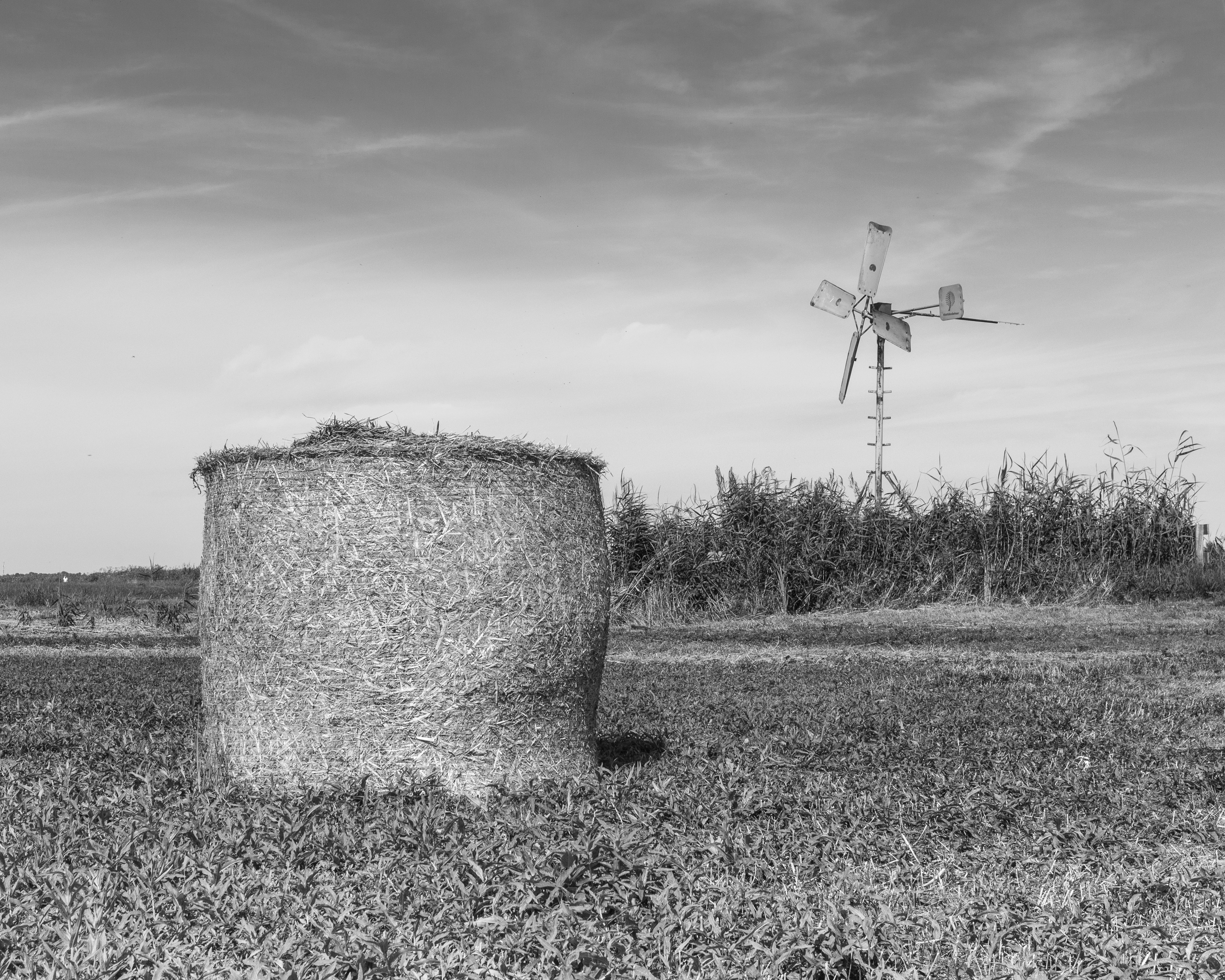 Grutte Griene, island in the nature reserve "Sneekermeer". Hay bales spicy grassland.